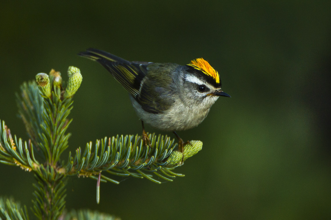 Golden-crowned Kinglet - Olympic NP - Washington_S4E2538